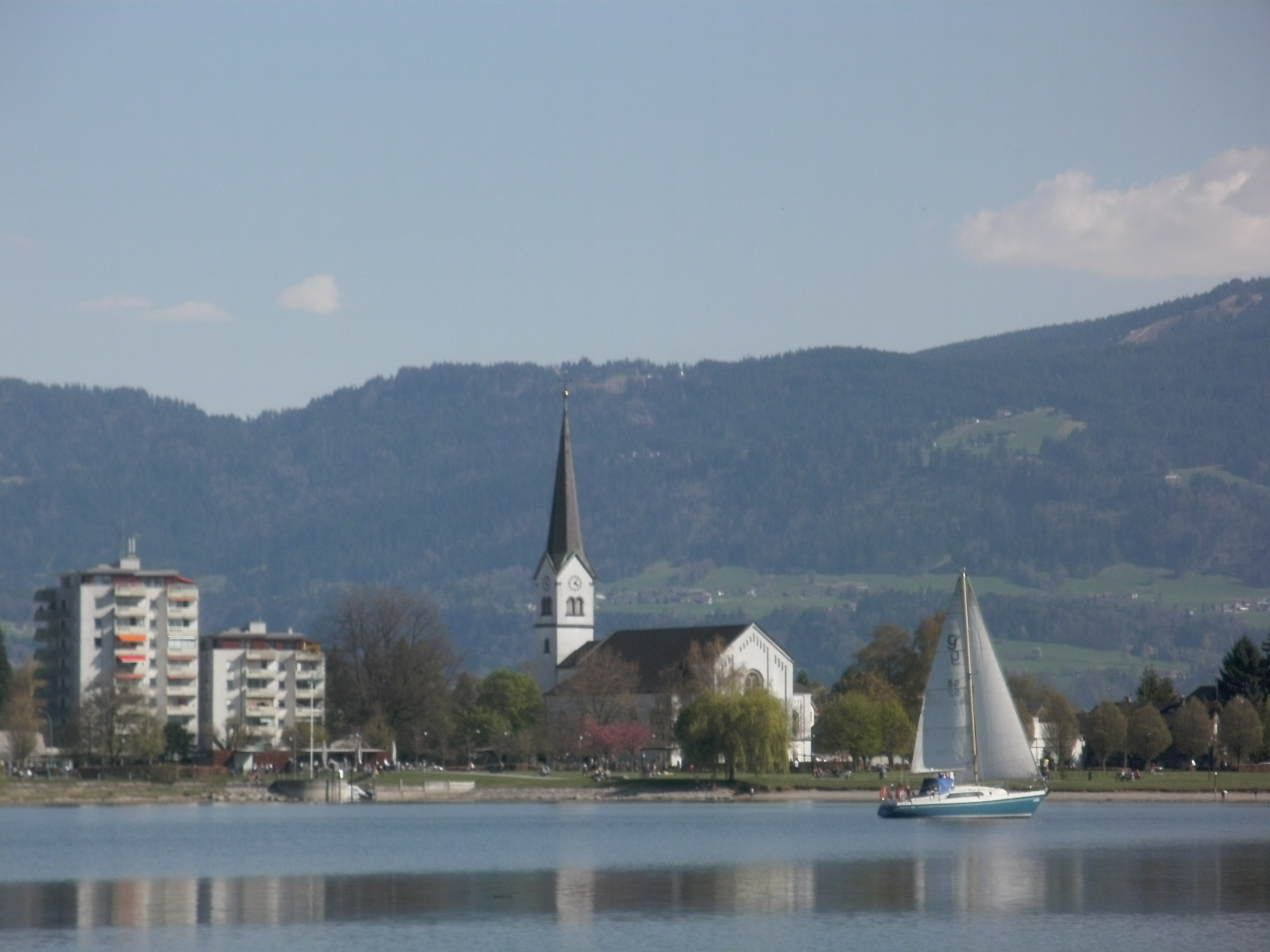 Parish Church of St. Sebastian in Hard, Vorarlberg, Austria. View from the "Green Dam".